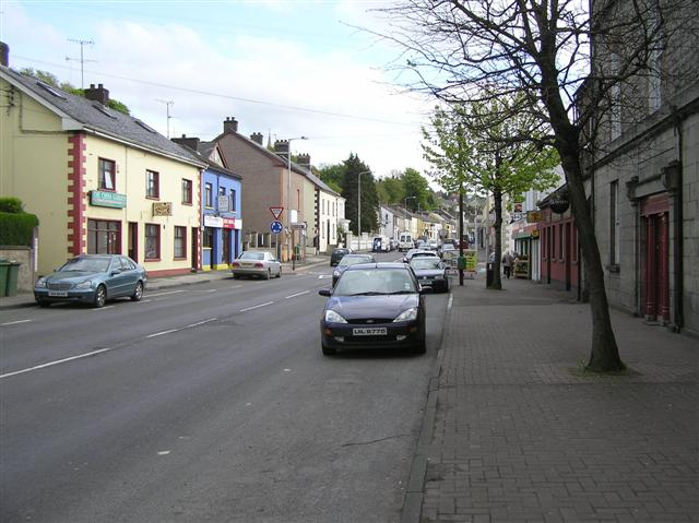 Main Street, Lisnaskea Looking south-west